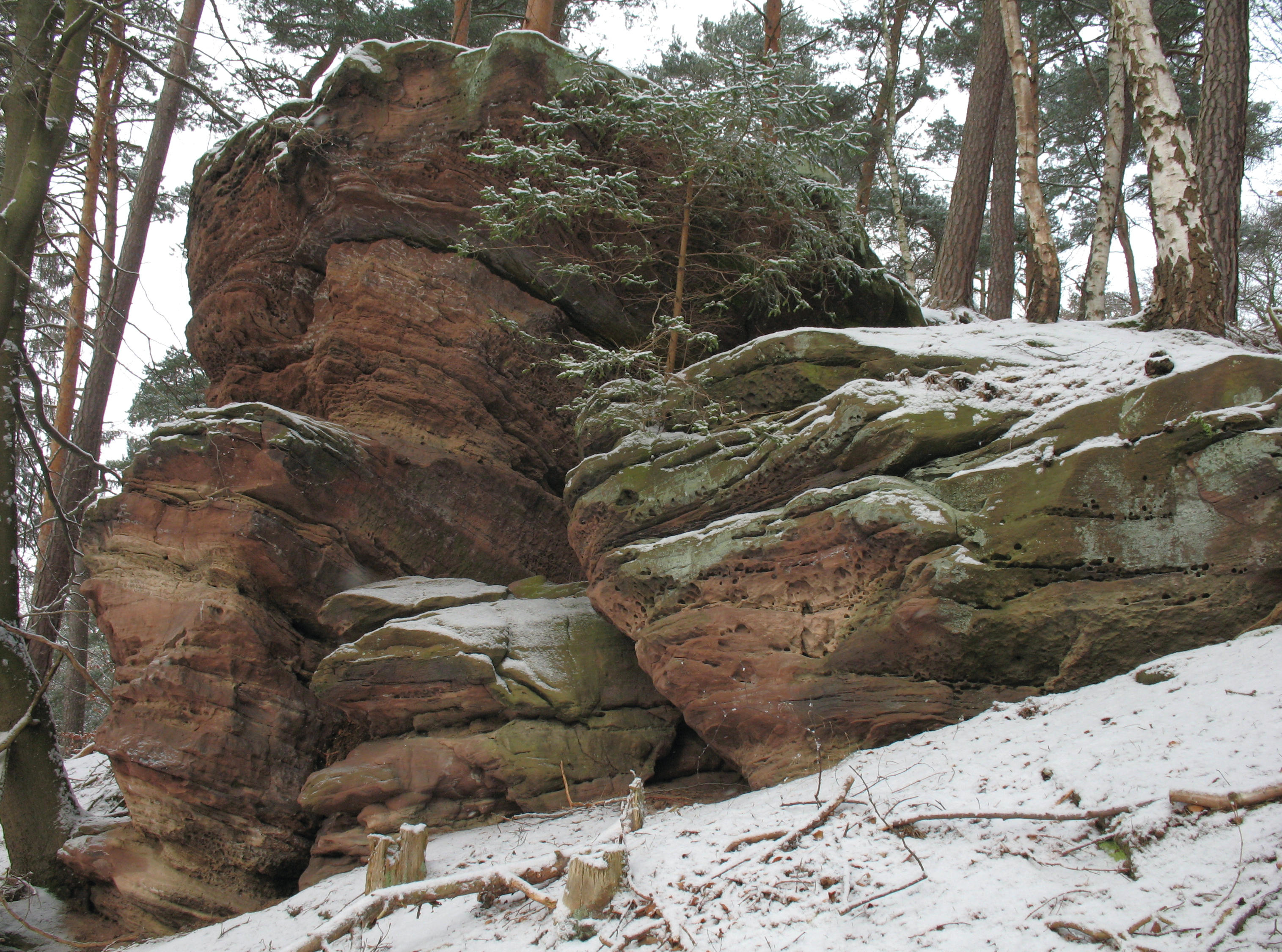 Rocks in Gleichen in Lower Saxony, Germany